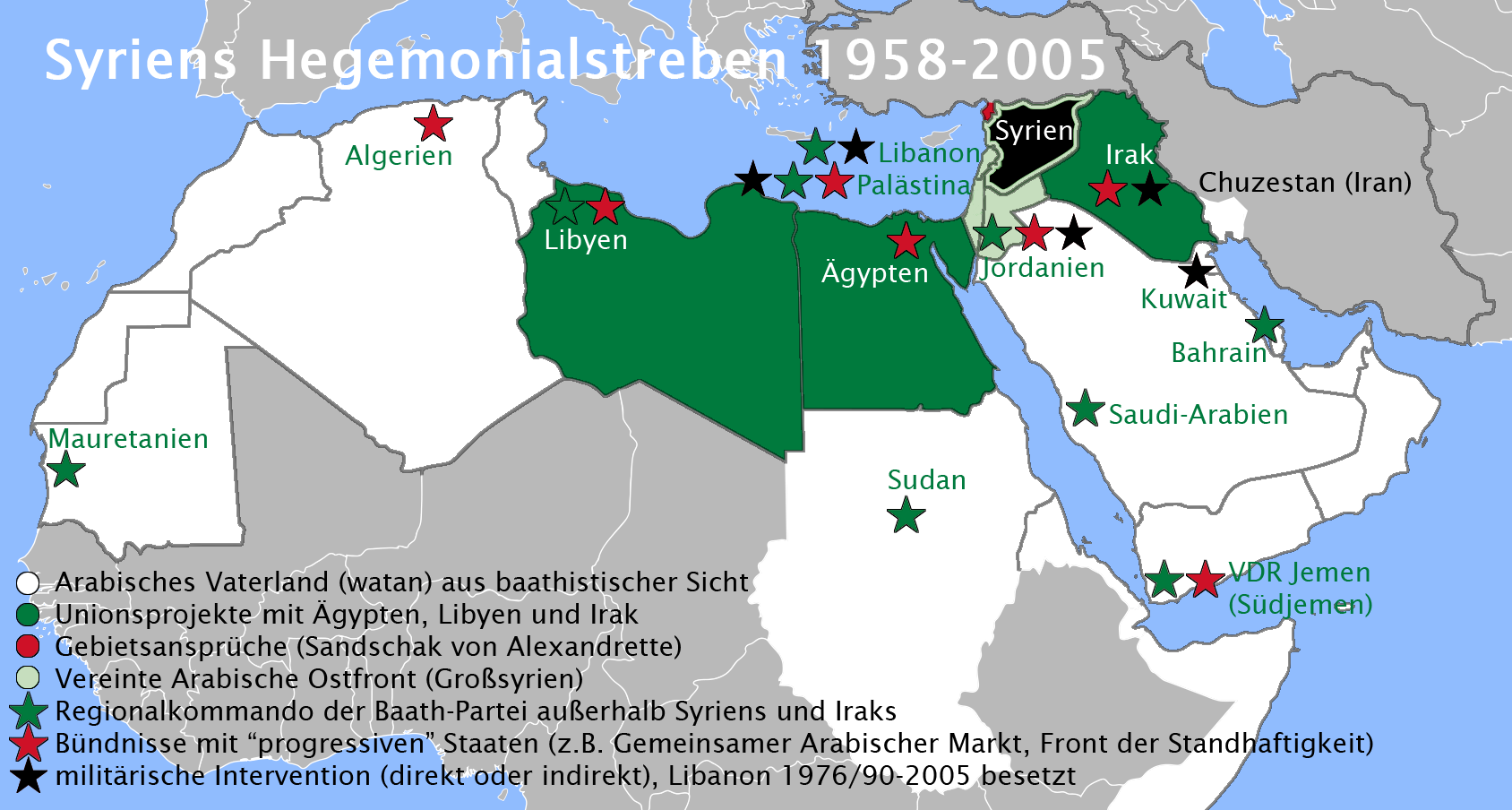 Baathist Syria's hegemonic ambitions between 1958 and 2005: white area = Arab fatherland (watan) in the baathist view black area = Syria dark-green area = Union projects with Egypt (1958/61, 1963, 1971/73, 1976/77), Libya (1971/73, 1980) and Iraq (1963, 1978/79) light-green area = United Arab Eastern Front (Greater Syria) red area = territorial claims (Sanjak of Alexandrette) green star = ideological expansion (regional Baath parties outside Syria and Iraq) red star = alliances with "progressive" Arab states (Arab Common Market 1964-1979, Steadfastness Front 1977-1981) black star = military intervention (directly, indirectly), Lebanon occupied 1976/90-2005